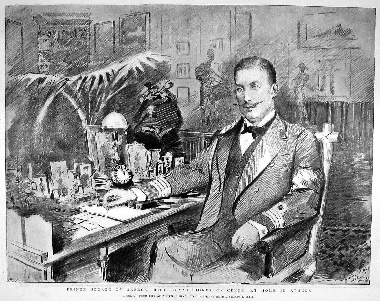 Portrait of Prince George of Greece, High Commissioner of Crete, at his study in the Greek Royal Palace in 1898